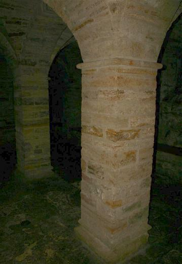 Travertine pillar in the crypt under Vor Frue Kirke (St. Mary's Church) in Århus, Denmark